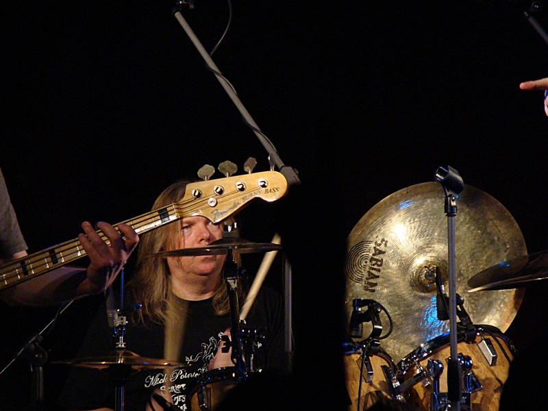 Mick Pointer of Arena, late of Marillion.